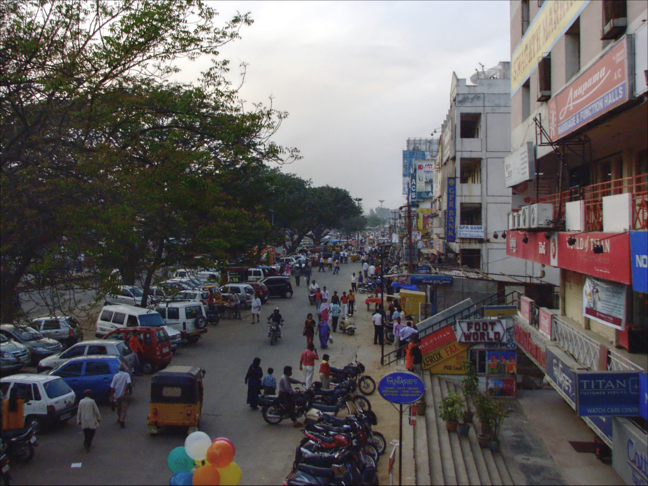 Kukkatpally Housing Board Colony, Hyderabad, AP, India